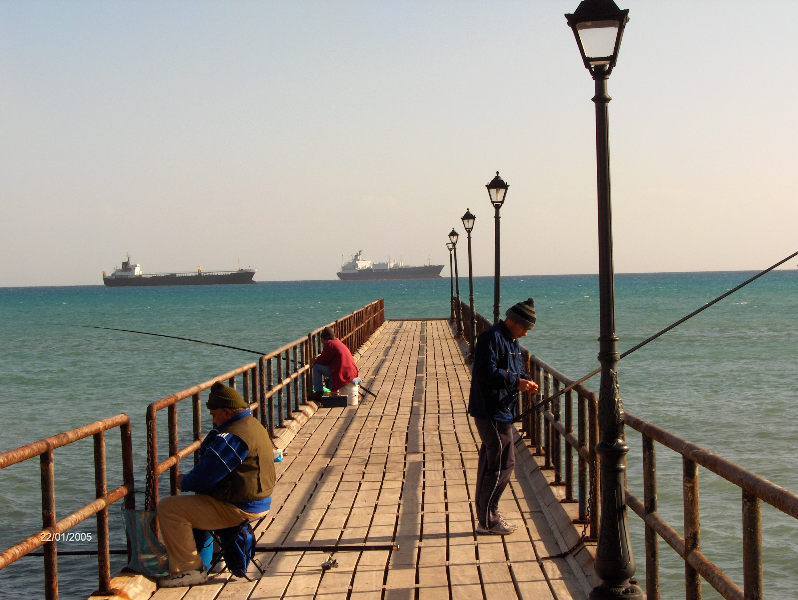 Fishing on a little jetty with seaboat-background in Limassol